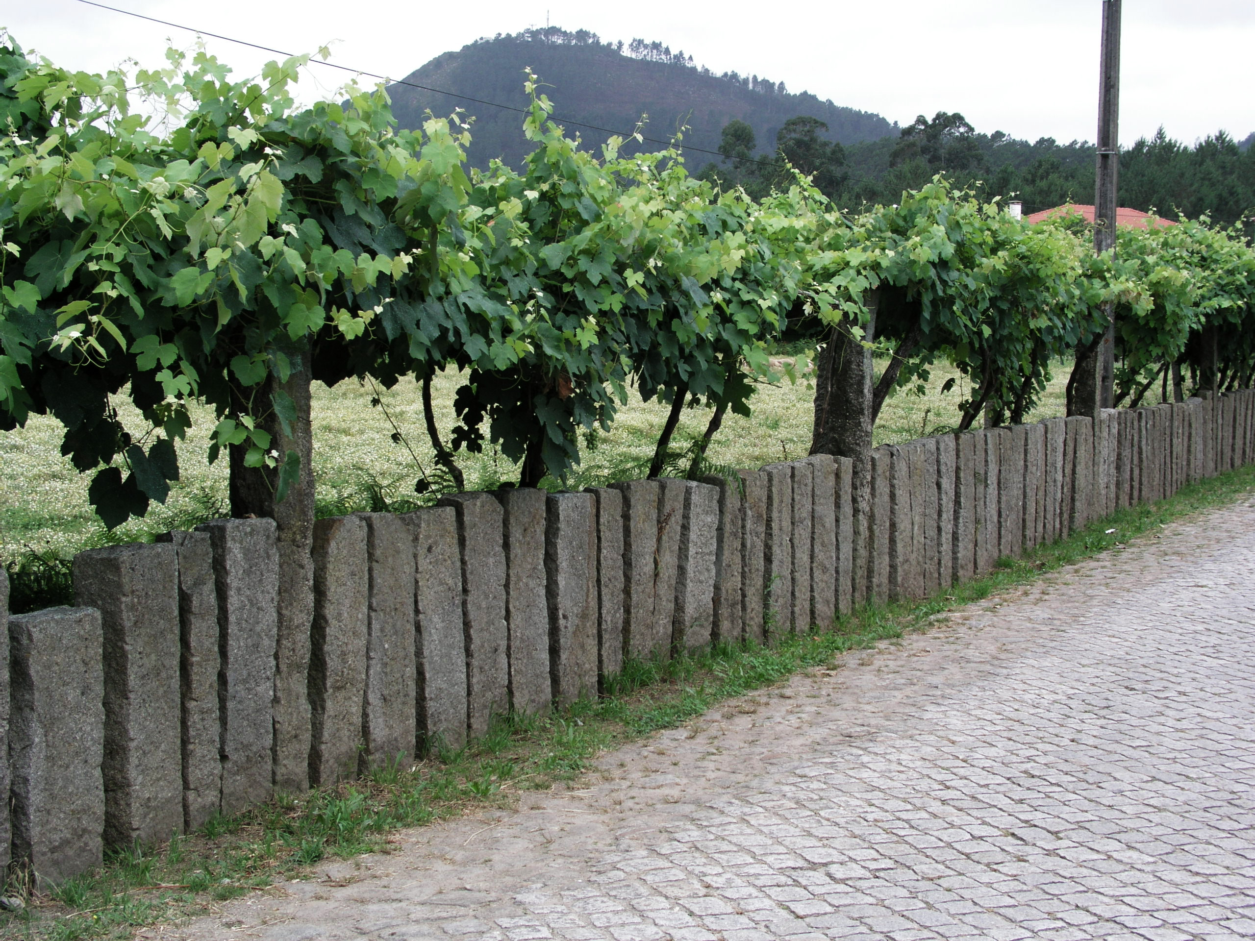 Arcozelo, Puente de Lima, Portugal. Stone Fence